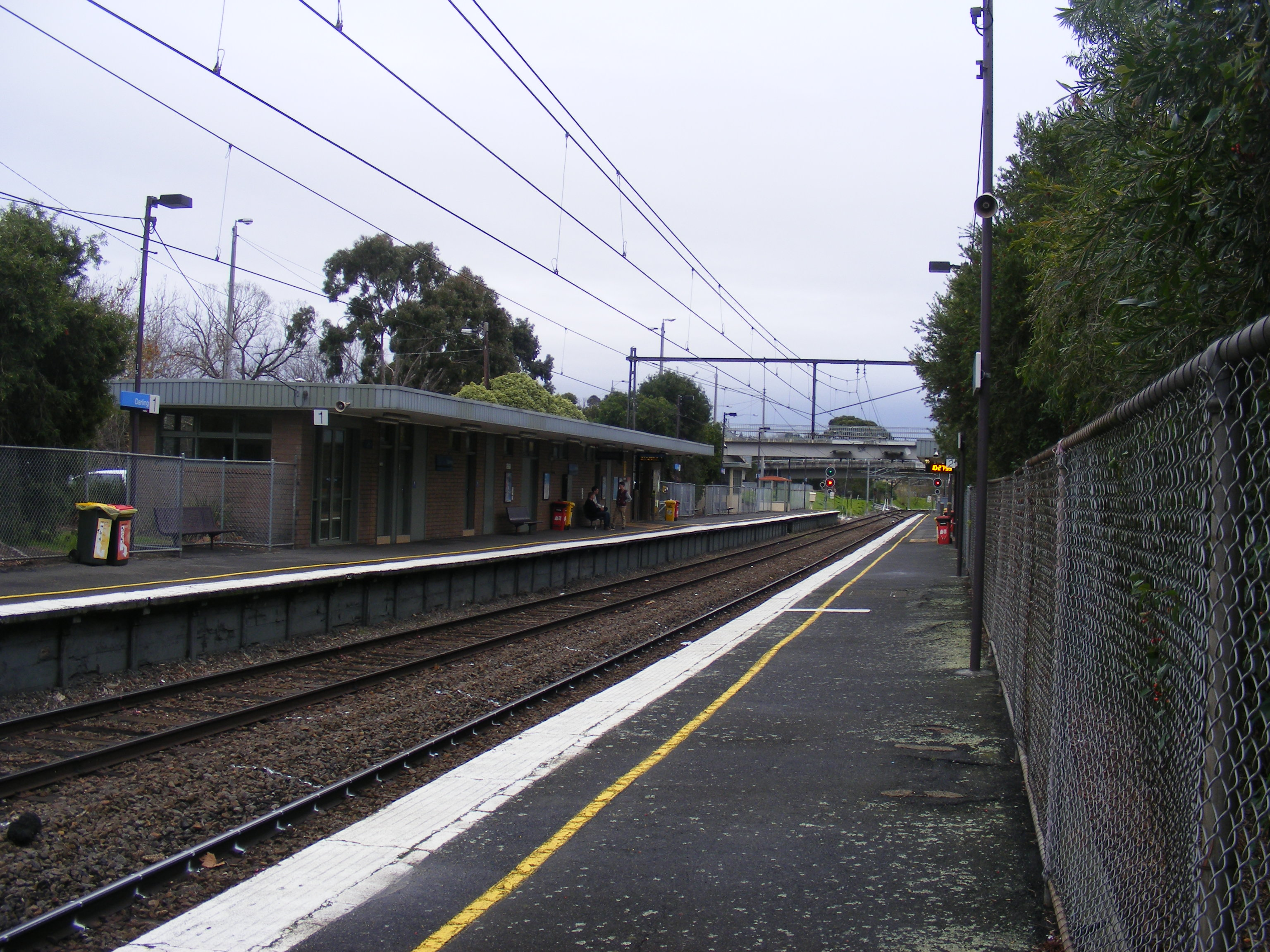 View from platform 2 looking west.